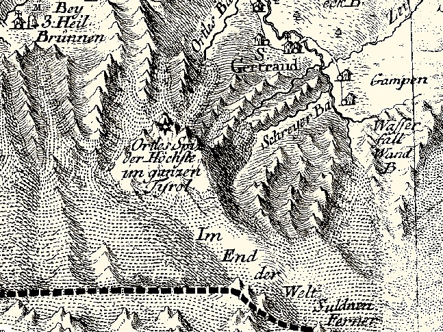 Ortler in Atlas Tyrolensis, 1774